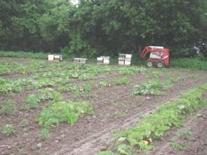 Placing honeybees for pumpkin pollination, Mowhawk Valley, NY